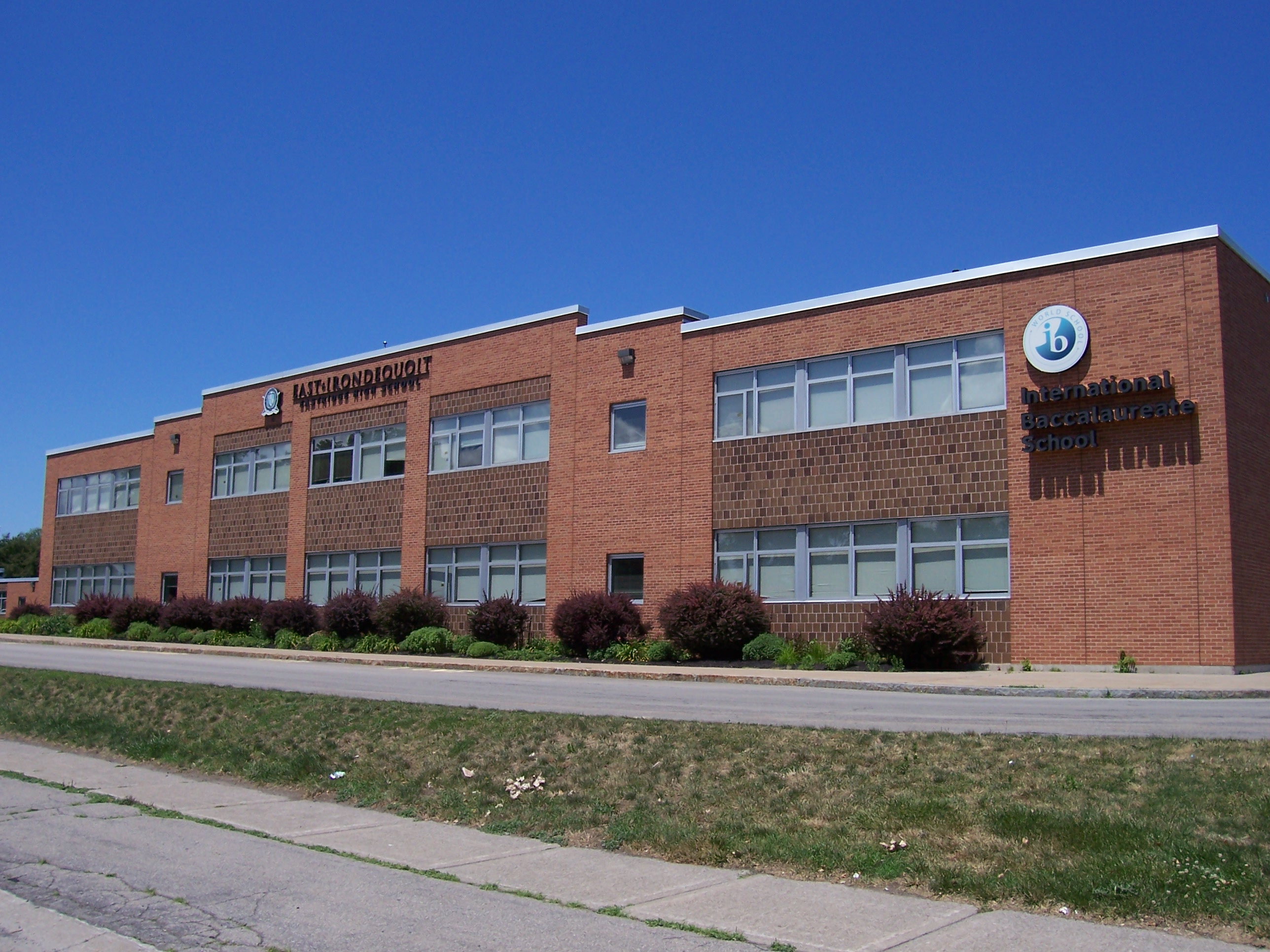 Eastridge High School in Irondequoit, New York. It is part of the East Irondequoit Central School District.